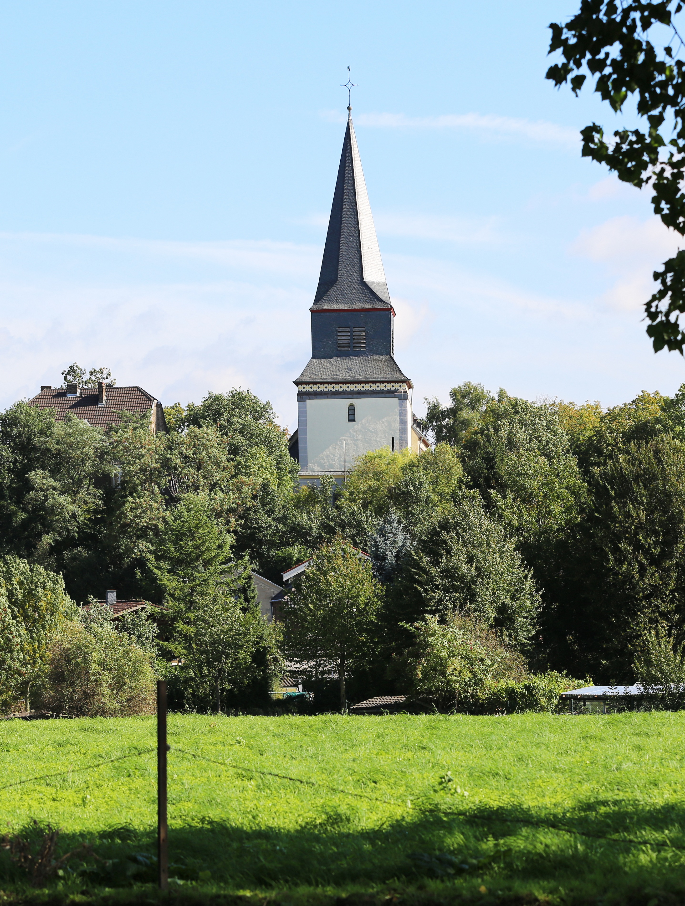 Medieval church St. Viktor, Hochkirchen, a quarter of Nörvenich, Germany